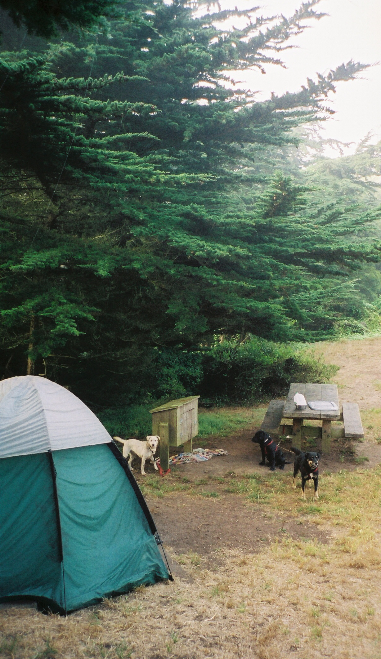 Bicentennial Campground within the Golden Gate National Recreation Area surrounding the San Francisco Bay area, California. Free, Pets allowed.